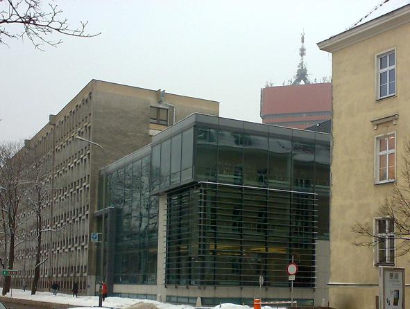 Collegium Novum UAM in Poznan. New part.